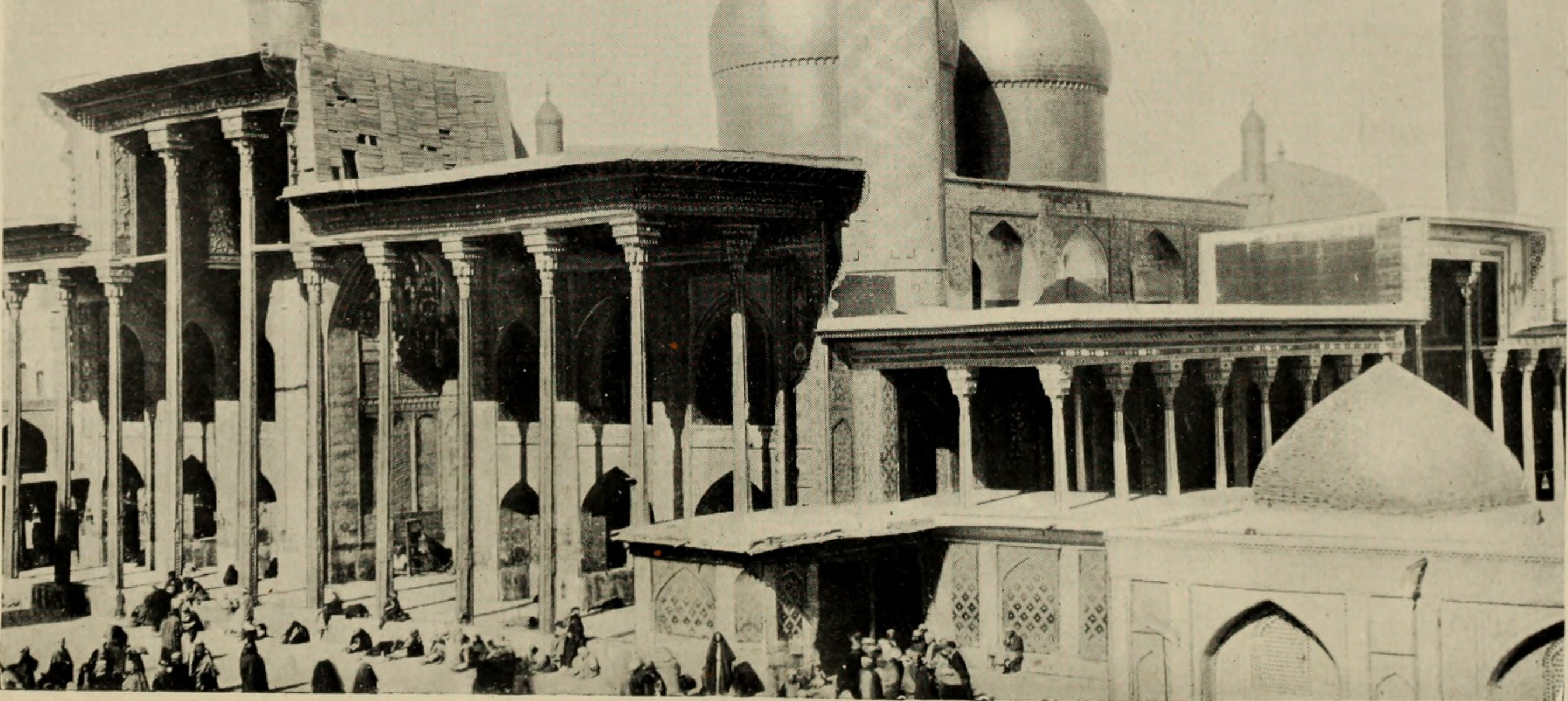 Title: The Persian problem; an examination of the rival positions of Russia and Great Britain in Persia, with some account of the Persian gulf and the Bagdad railway Year: 1903 (1900s) Authors: Whigham, Henry James, 1869- Subjects: Baghdad Railway Eastern question (Central Asia) Publisher: London Isbister Text Appearing Before Image: olis of brick and mortar.Practically all that is left to-day of the kasr isthe foundation-work or solid brick mass, though theTemple of Melita is partially existent, and enough ofthe flooring and partition-walls of the palaces toenable the explorer to draw fairly accurate conclu-sions as to the size of the rooms. The whole kasr with its enclosing walls isabout 500 yards by 360, and it includes withinits space three palaces, a temple, and a canal,besides a portion of the famous Holy Way whichHerodotus described for us. Thus the kasr bearssome resemblance to the fort at Agra with its threepalaces merging into one another, but there thelikeness stops, for the citadel of Nebuchadnezzar canin no way have compared with the fort of the Mogulsas far as size or architectural beauty or richness ofmaterial is concerned. Instead of the white marbleand red sandstone of Agra, there is nothing but amonotony of mud bricks and burnt bricks in Babylon—good material of the kind, it is true, since they Text Appearing After Image: '